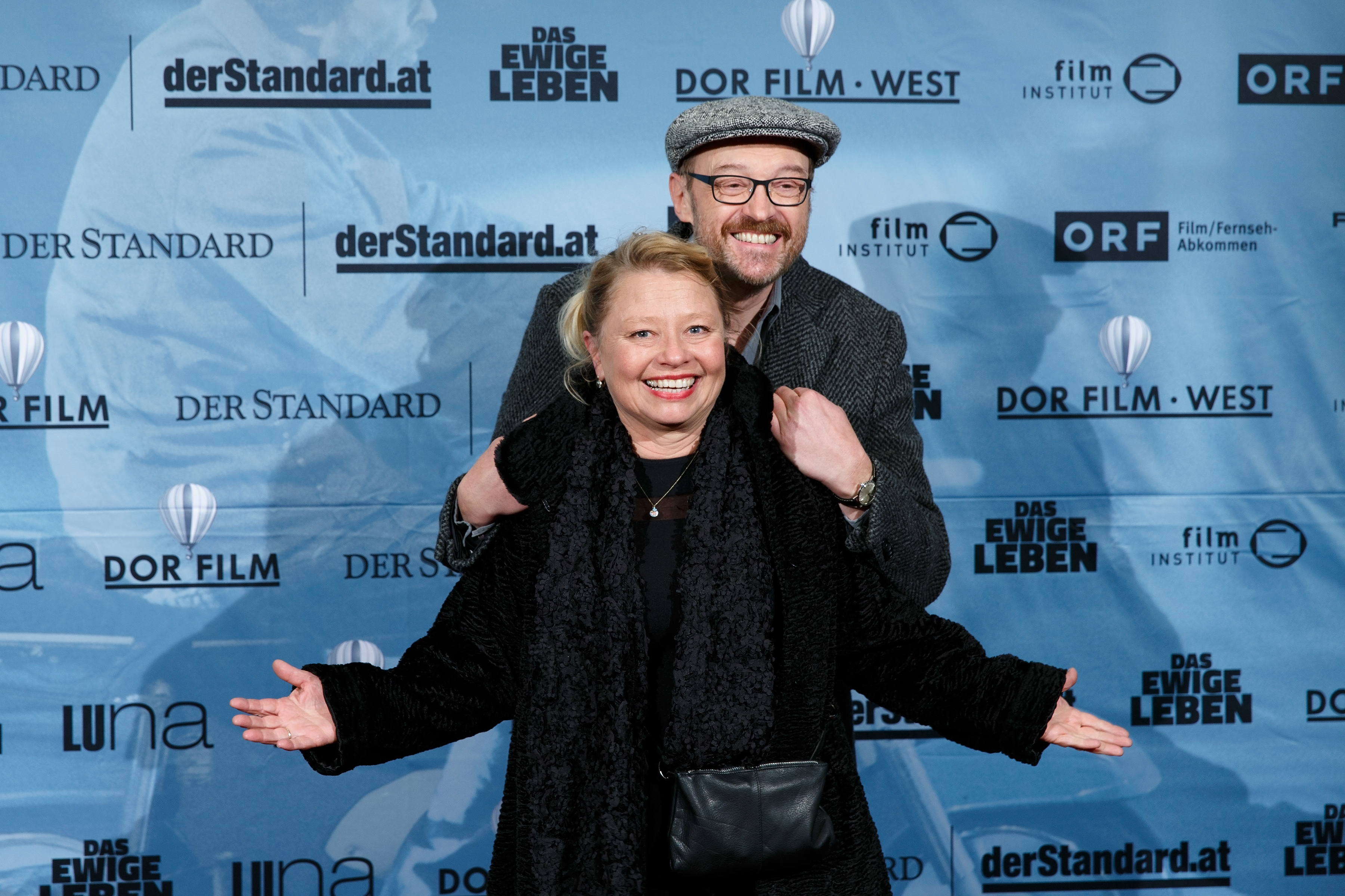 Premiere of the film Das ewige Leben at Gartenbaukino in Vienna, Austria: Margarethe Tiesel and Josef Hader.